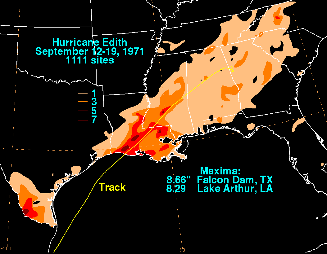 Storm total rainfall map of Hurricane Edith during September 1971.